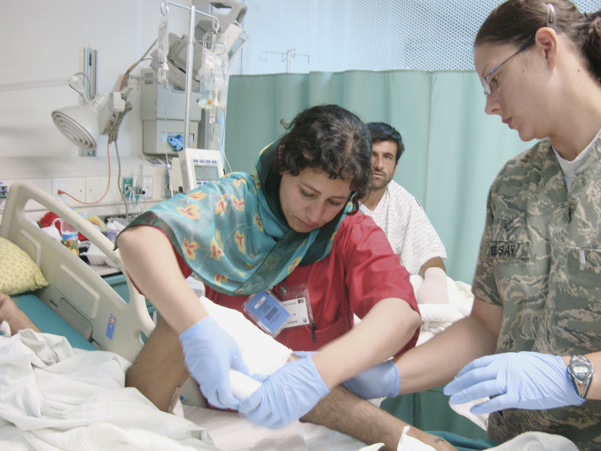 Afghan National Army soldier Laila Farahi (left) bandages a patient's leg Oct. 14, 2009, at Bagram Airfield, Afghanistan. She attended a special two-week mentorship program at the Criag Joint Theater Hospital here to work alongside U.S. doctors and nurses to hone her medical skills and get firsthand experience with trauma-based care. She was one of the first women to ever attend the special program. (Courtesy photo)